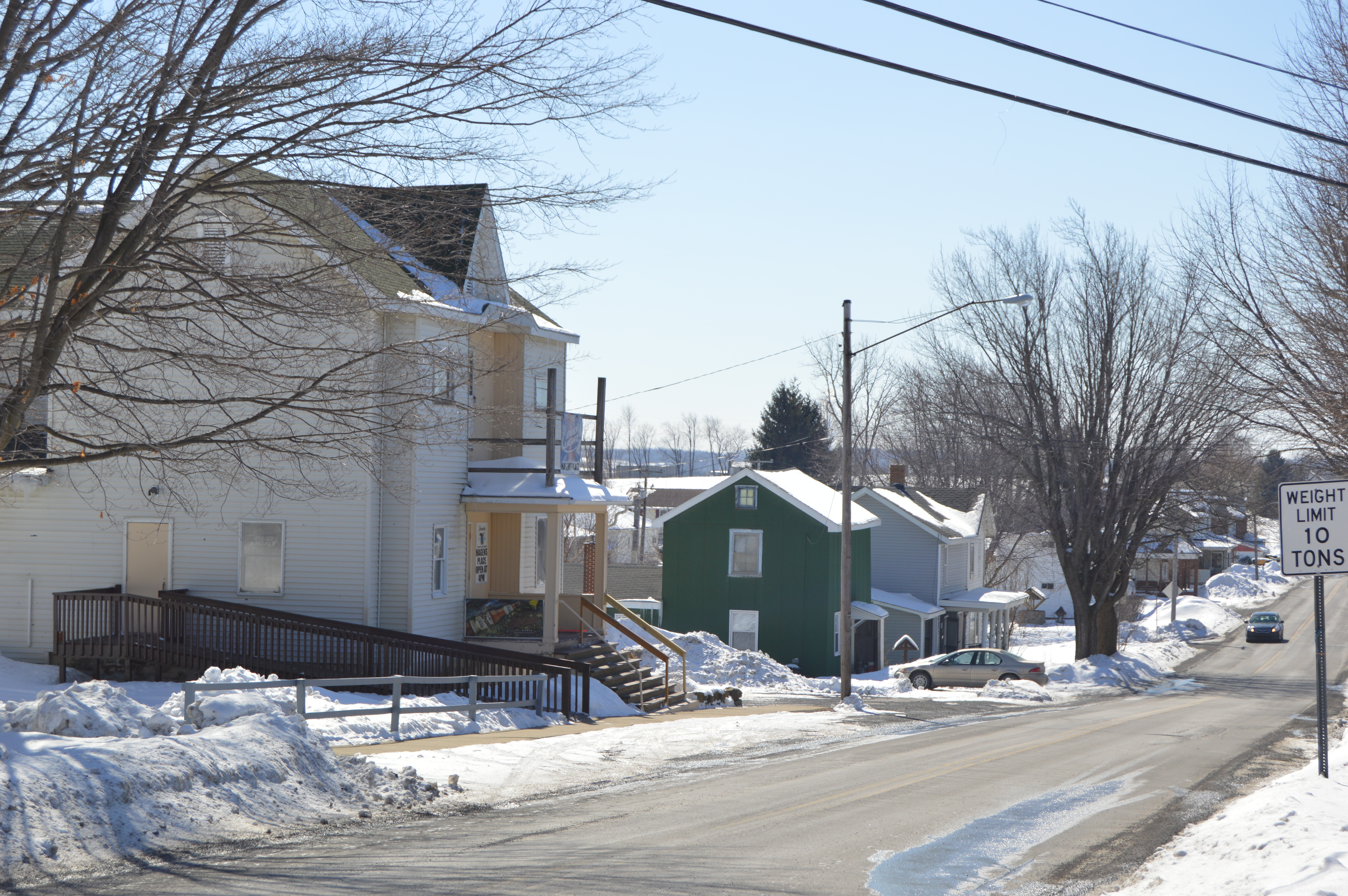 Looking southwest on Columbia Street in Chest Springs, Pennsylvania, United States, from near the Pennsylvania Route 36 intersection.